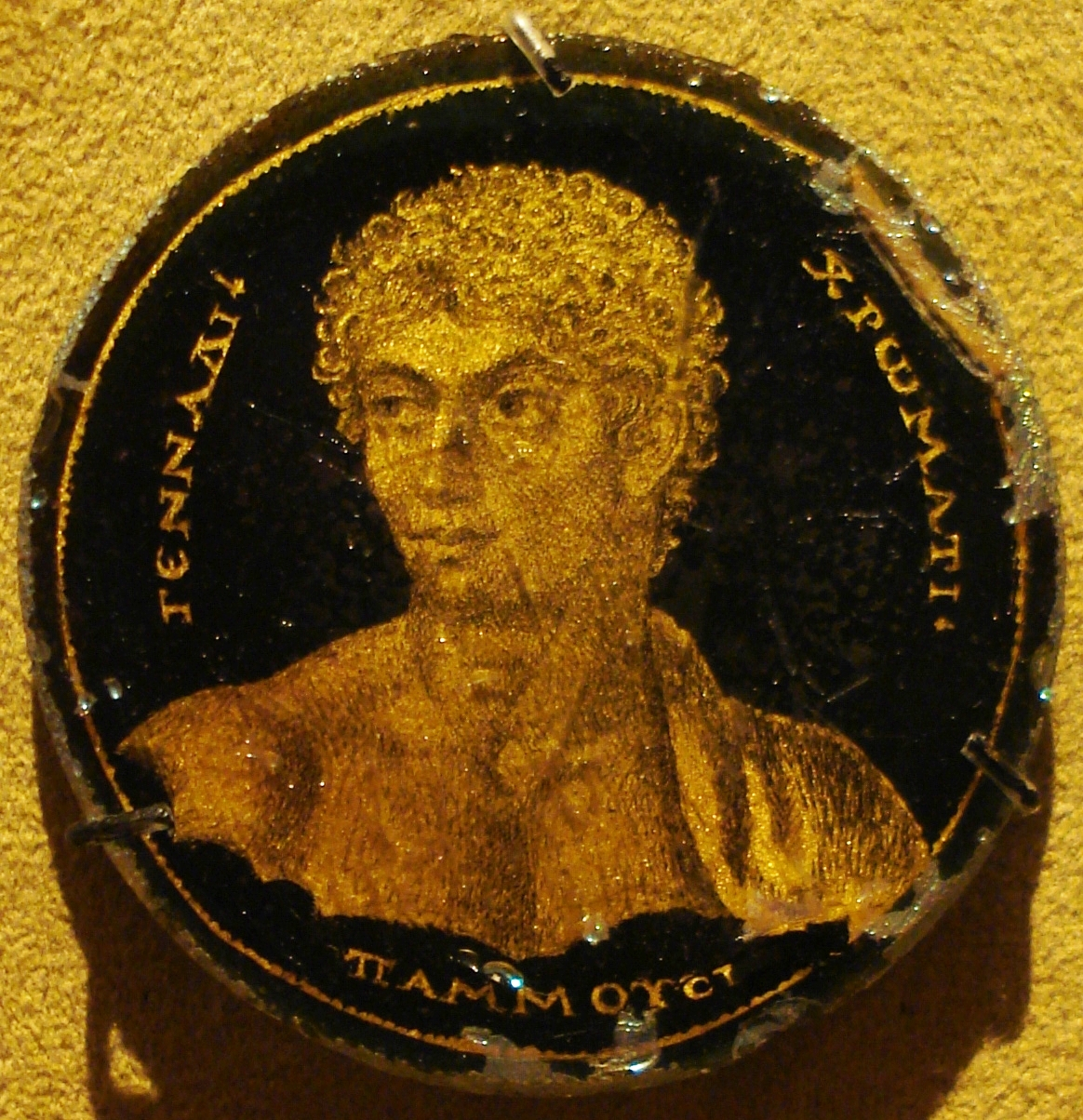 Worked gold and blue glass medallion of a youth named Gennadios. Probably from Hellenized Alexandria, Egypt, c. 250-300. The Greek inscription reads "Gennadios most accomplished in the musical arts." In the collection of the Metropolitan Museum of Art.